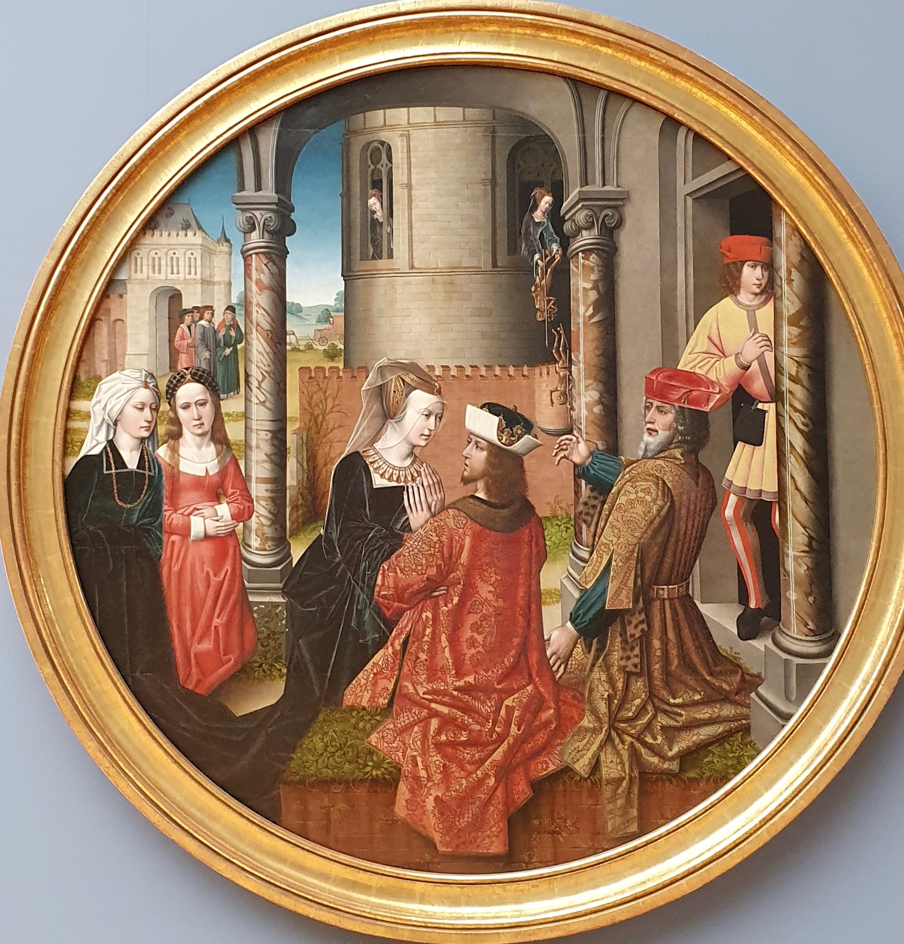 Joseph meets Asenath (Asenath throws the Idols out of the Tower), Brussels 1490-1500